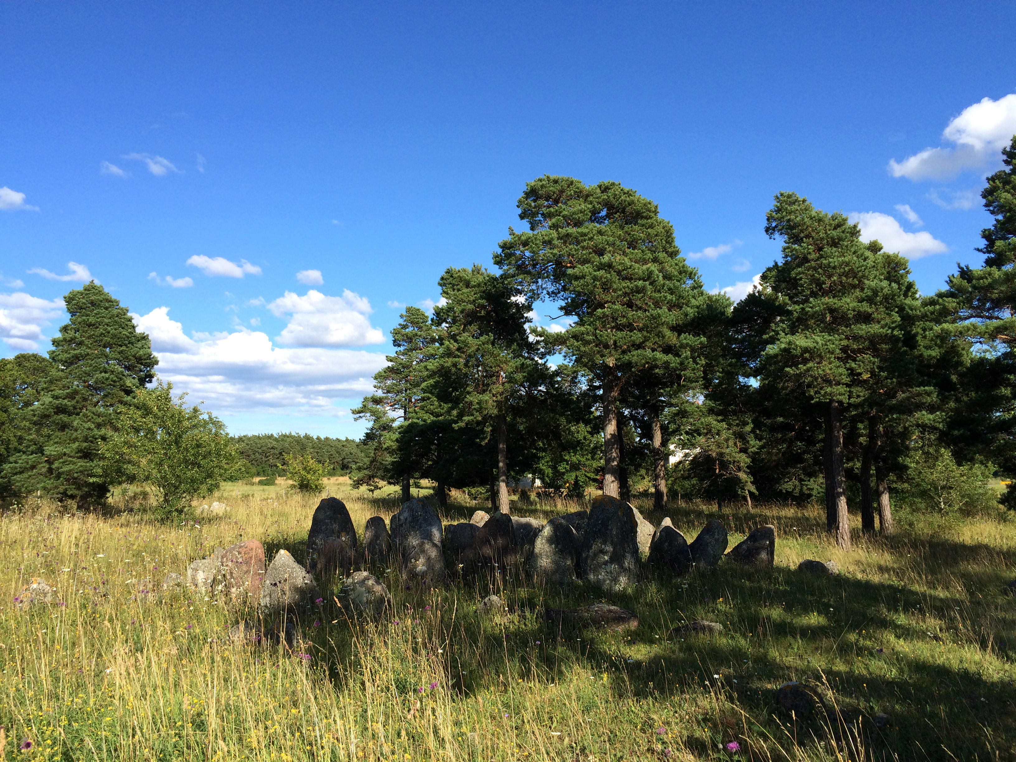 Iron age stone ship tombs at Domarlunden (Judge's Grove) SE of Lärbro, Gotland